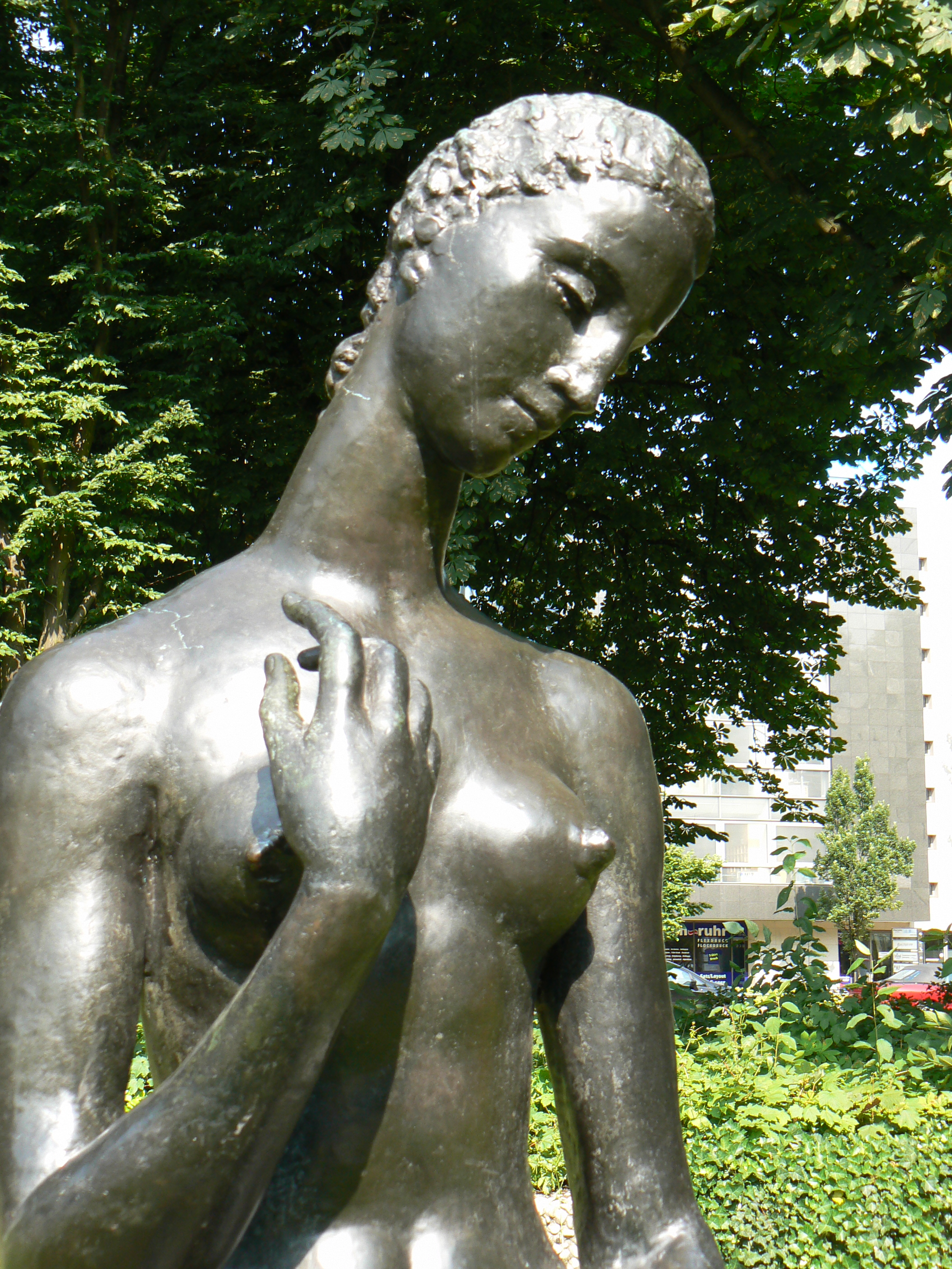 sculpture Kniende (1911/1926) by Wilhelm Lehmbruck in Duisburg/Germany